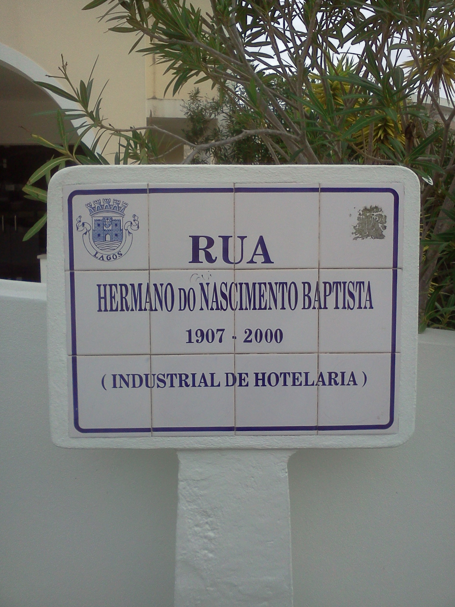 Street sign of Rua Hermano do Nascimento Baptista, in the city of Lagos, in southern Portugal.